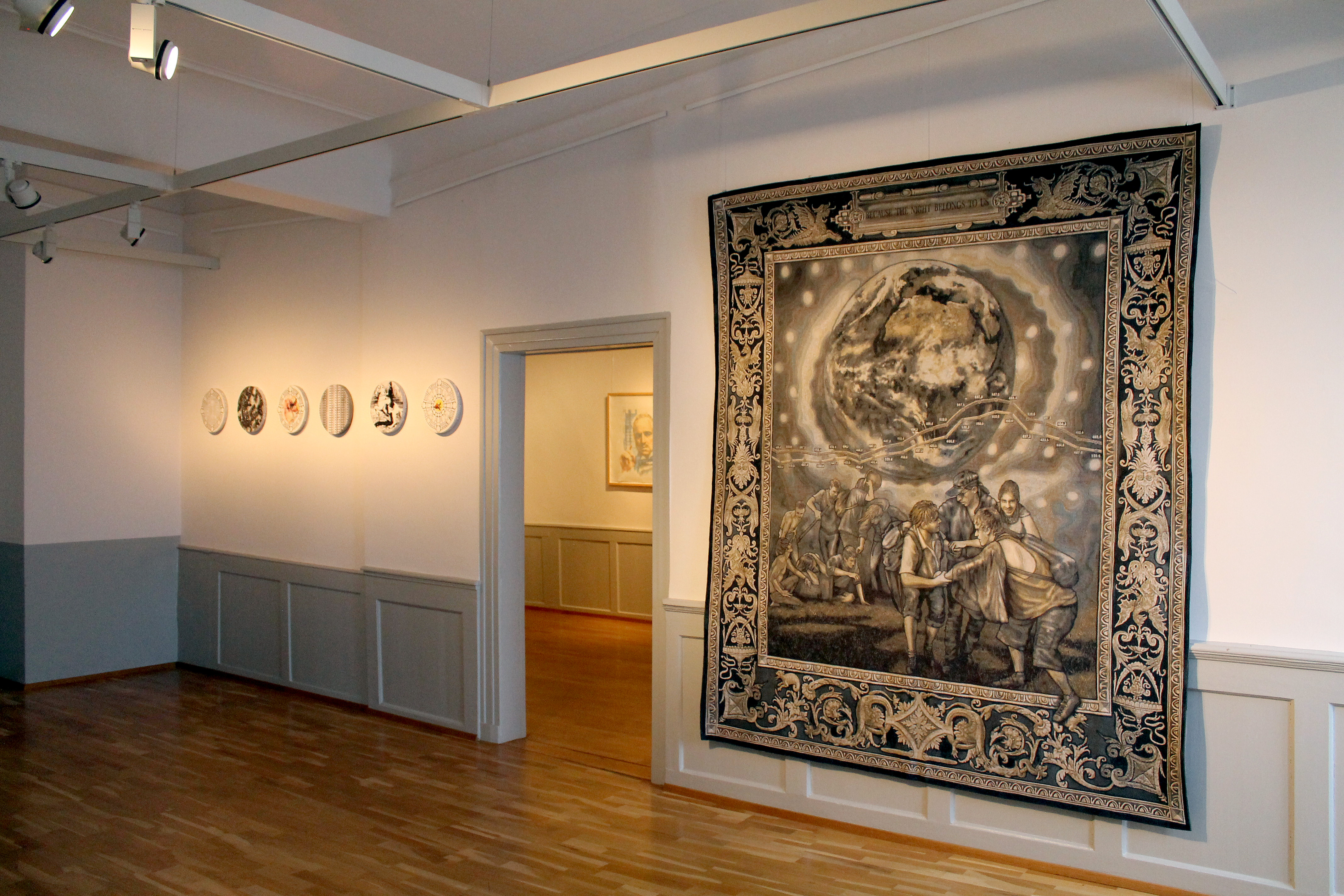 Schloss Neuenbürg, view of the exhibition Once upon a time in mass media – Digital Montages by Margret Eicher, 2 March -5 May, 2013 (Curator: Jacqueline Maltzahn-Redling)